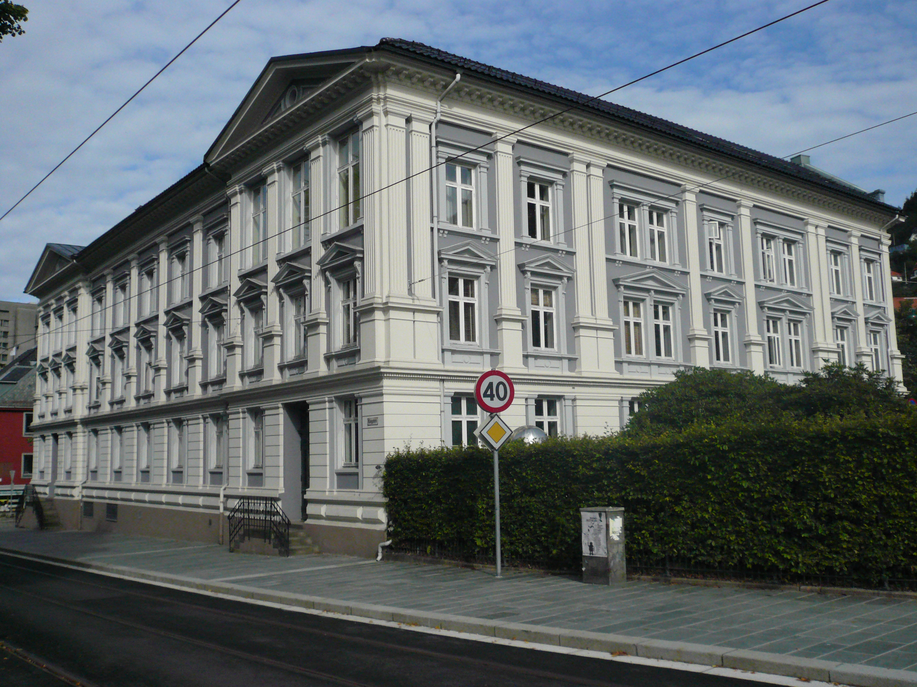 Architect Schak Bull: Bergen Haandværks- og Industriforenings Aldershjem, Bergen, Norway (1884). Today: Kunsthøgskolen i Bergen.